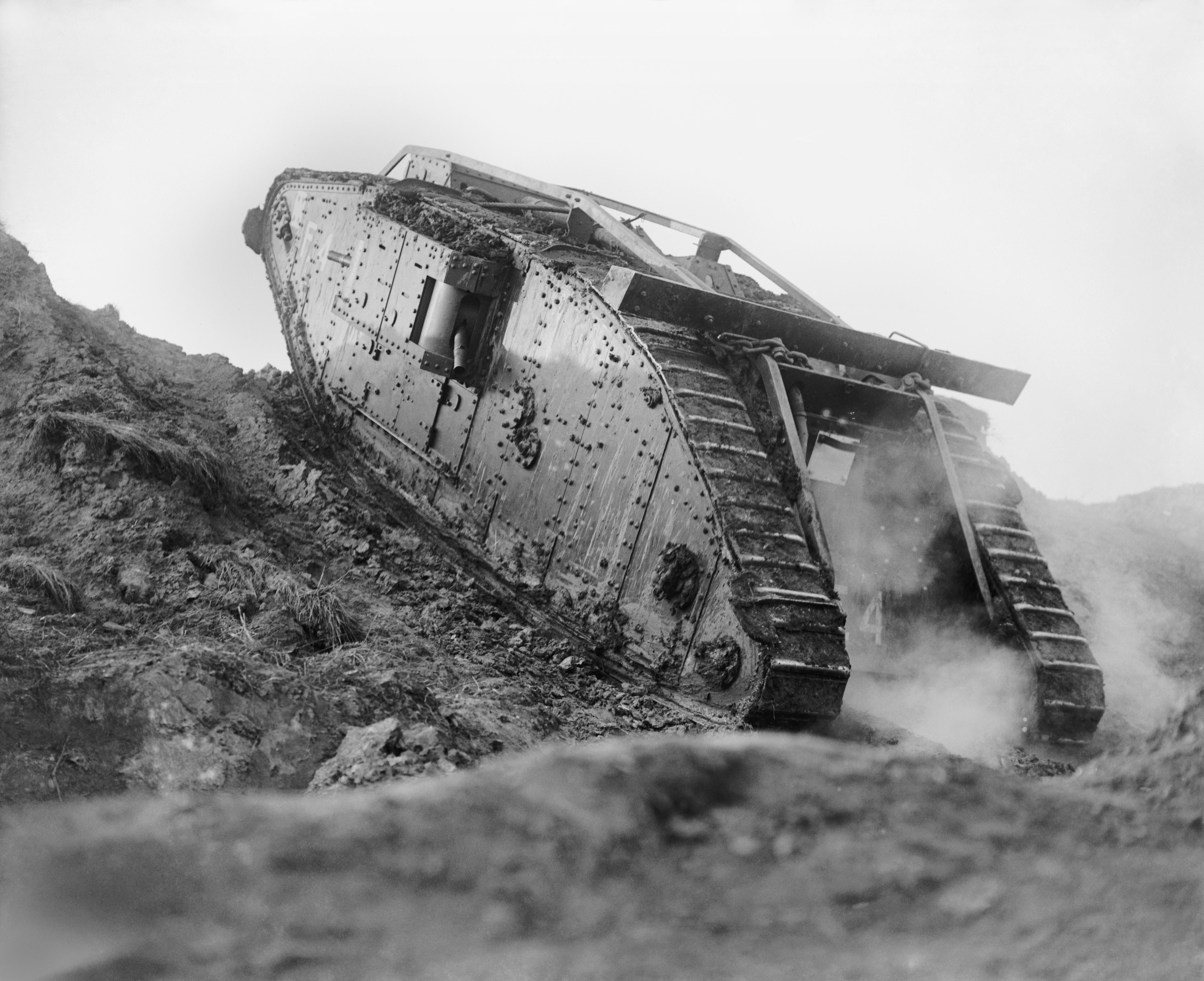 The Tank Warfare on the Western Front, 1917-1918 Tank F4 ascending a slope at the Tank Driving School during the special training for the Battle of Cambrai at Wailly, 21 October 1917. Over 400 tanks were gathered for that training. The photograph was taken from the left rear of the tank.